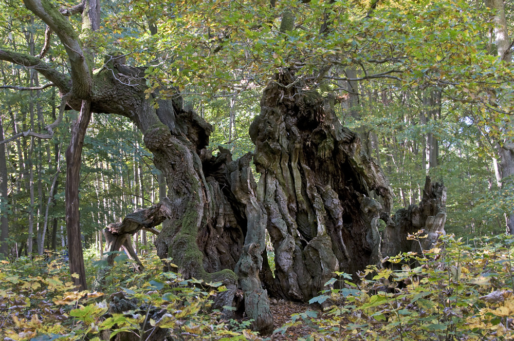 The King Oak - Europe's oldest tree